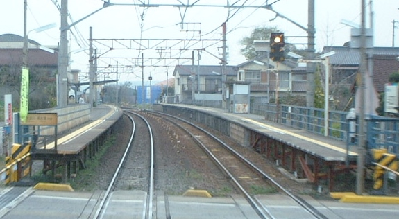 Nagoya Railroad Kowa Line Handaguchi Station Platform